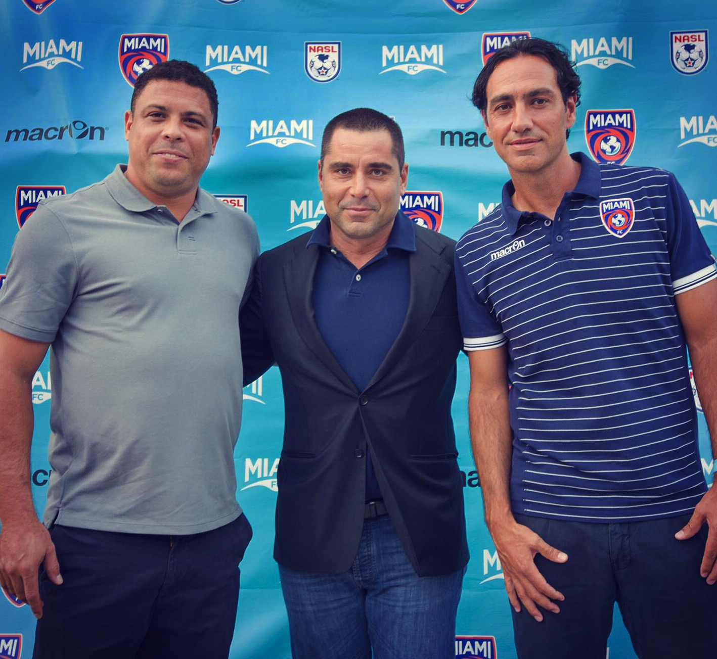 Miami FC President and co-owner, Riccardo Silva (centre) with Ronaldo Luís Nazário de Lima (left) and Miami FC Manager, Alessandro Nesta (right)